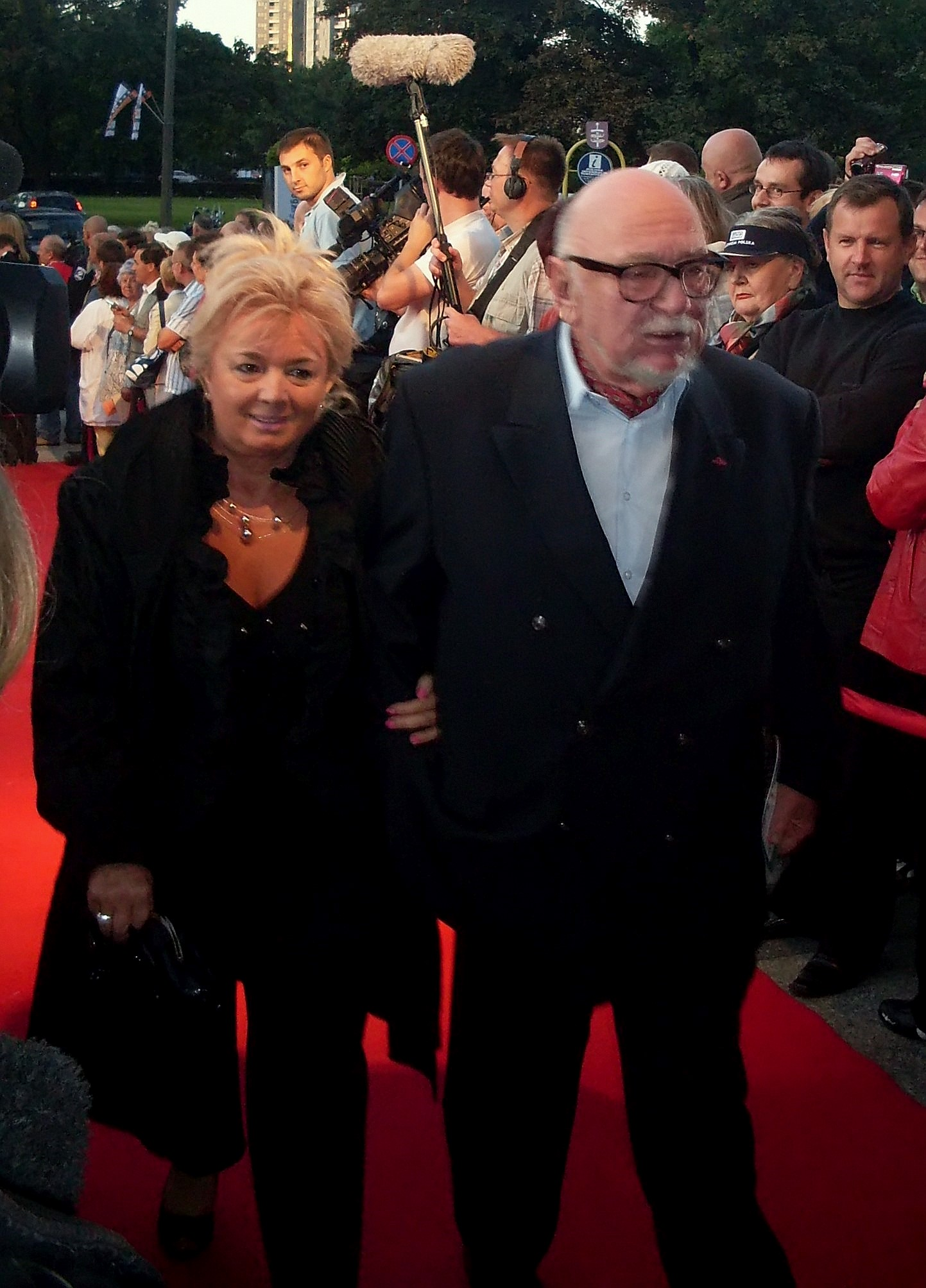 Polish film director Jerzy Hoffman with his wife at opening of the XXXIV Polish Film Festival in Gdynia 2009.